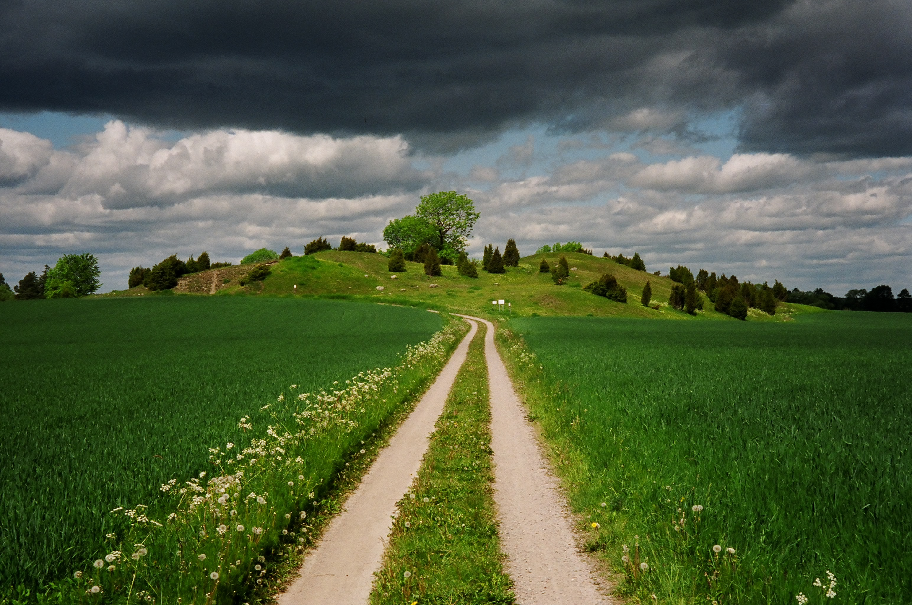 Merovingian-Viking Age boat burial necropolis, Valsgärde, c. 600-1000 A.D.